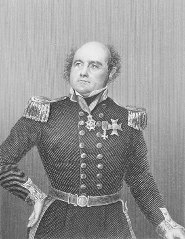 John Franklin (1786 – 1847)